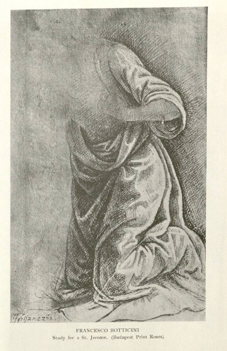 Drawing by Francesco Botticini